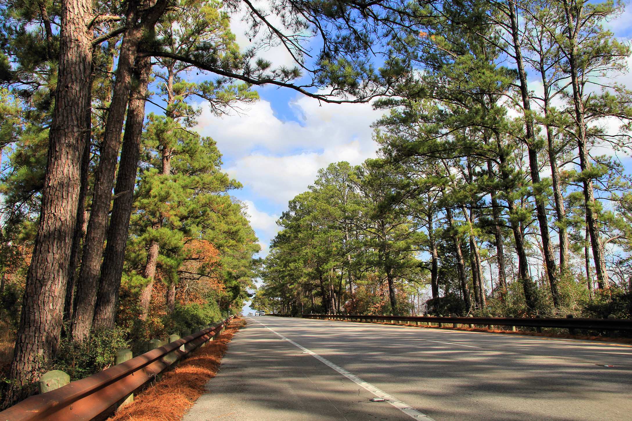 Part of the Lost Pines Forest along State Highway 21 in Bastrop County, Texas, United States.